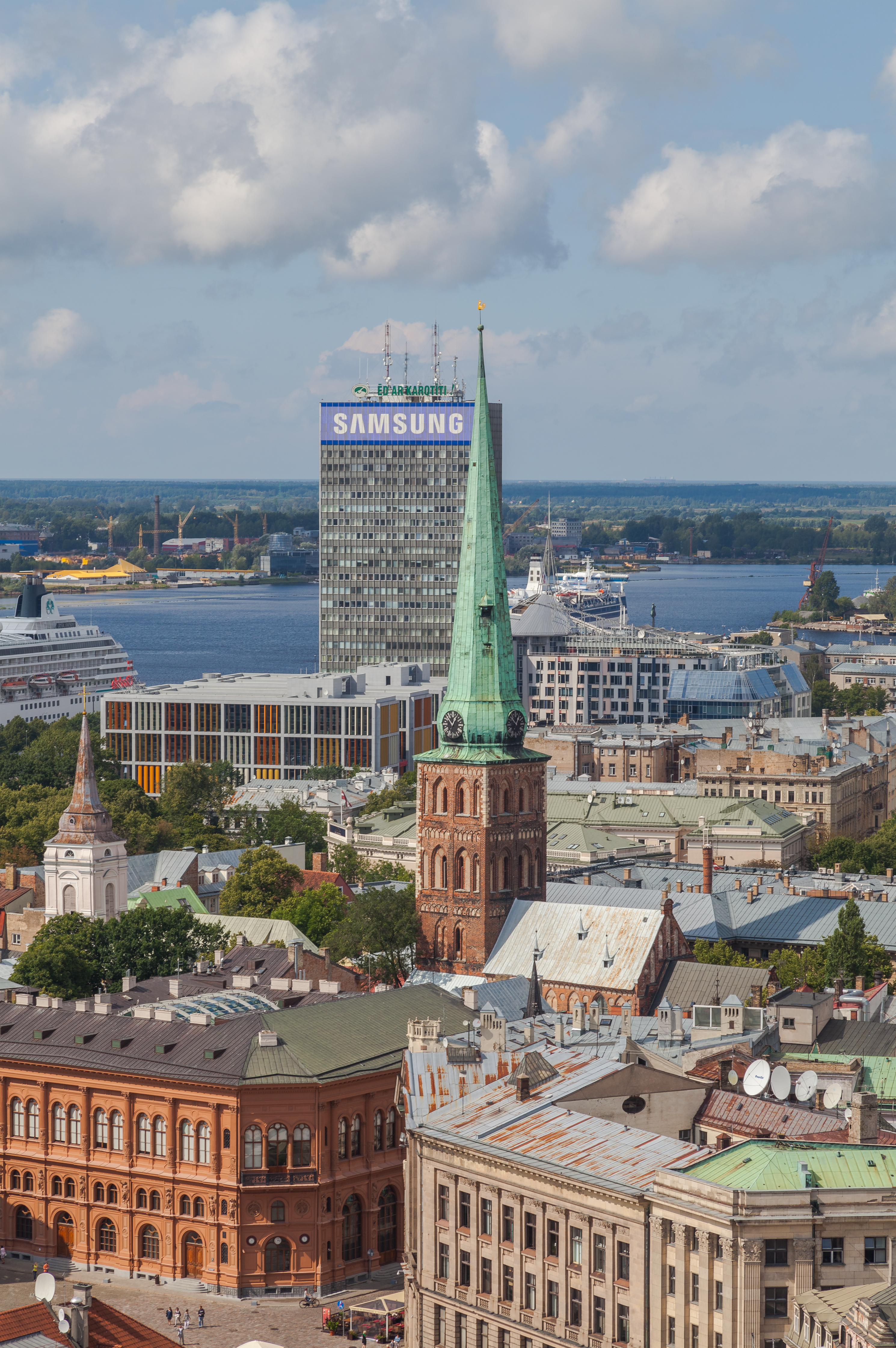 View of Riga from St. Peter's church, Latvia